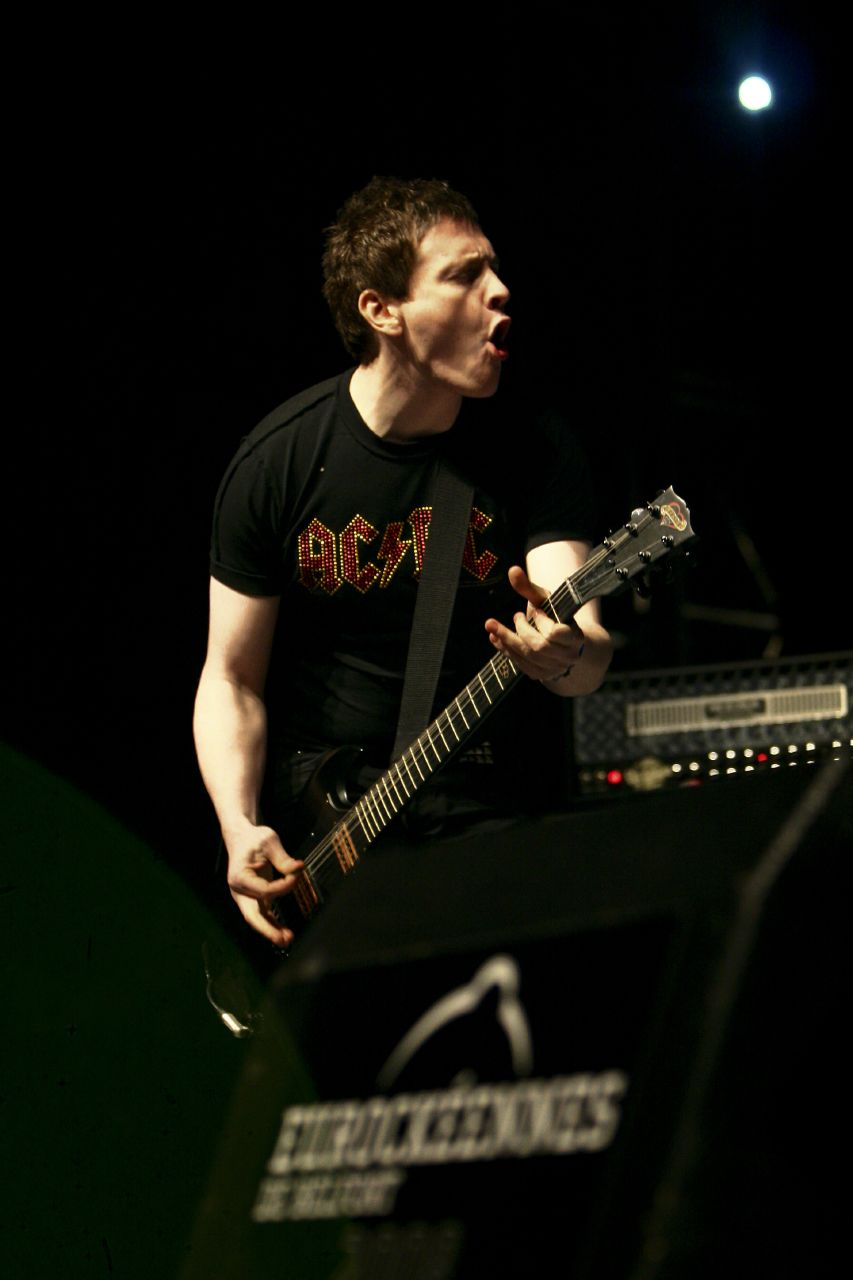 Calvin Harris at the Eurockéennes 2008